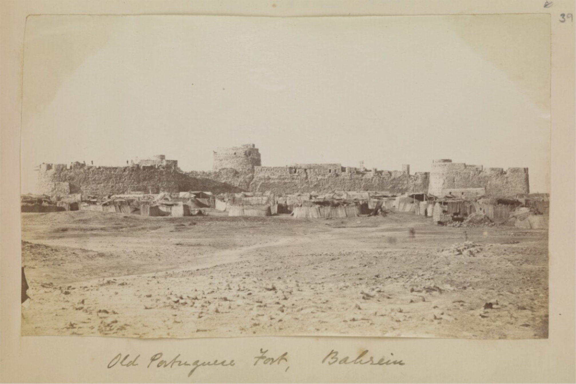 The Old Portuguese Fort in Bahrain in 1870